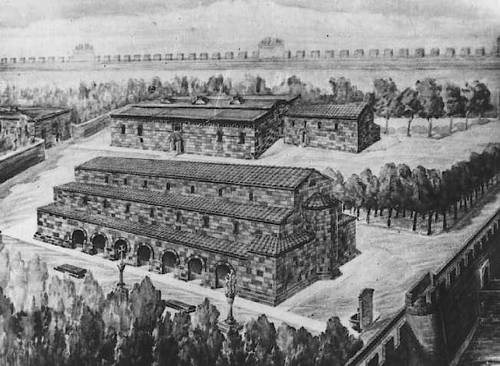 Public domain. This file is in the public domain in Russia.